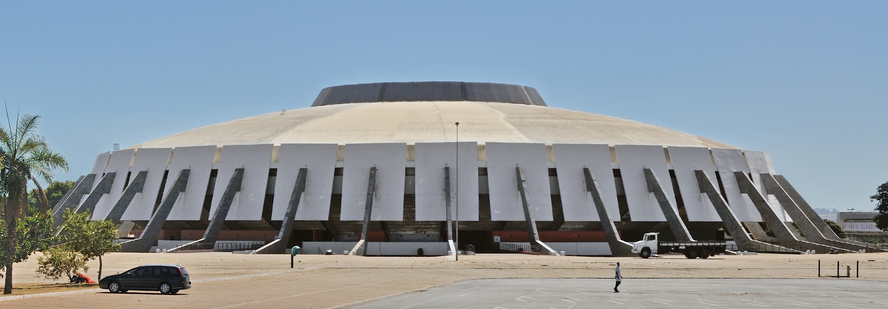 The Nilson Nelson Gymnasium (Ginásio Nilson Nelson), an indoor sporting arena in Brasilia.